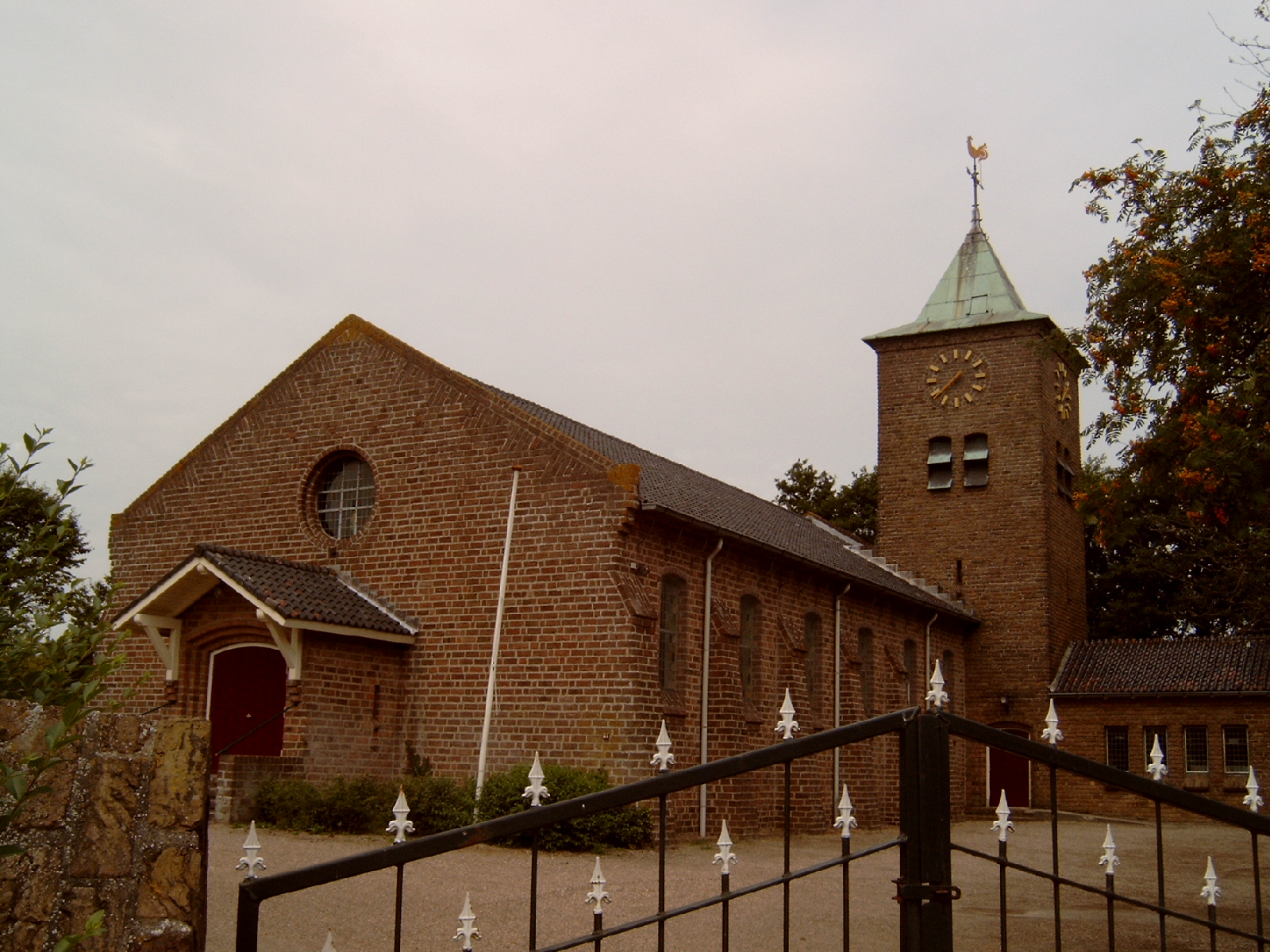 Wieringwerf, church - Wieringerwerf, Meeuwstraat 44 - Het Kompas